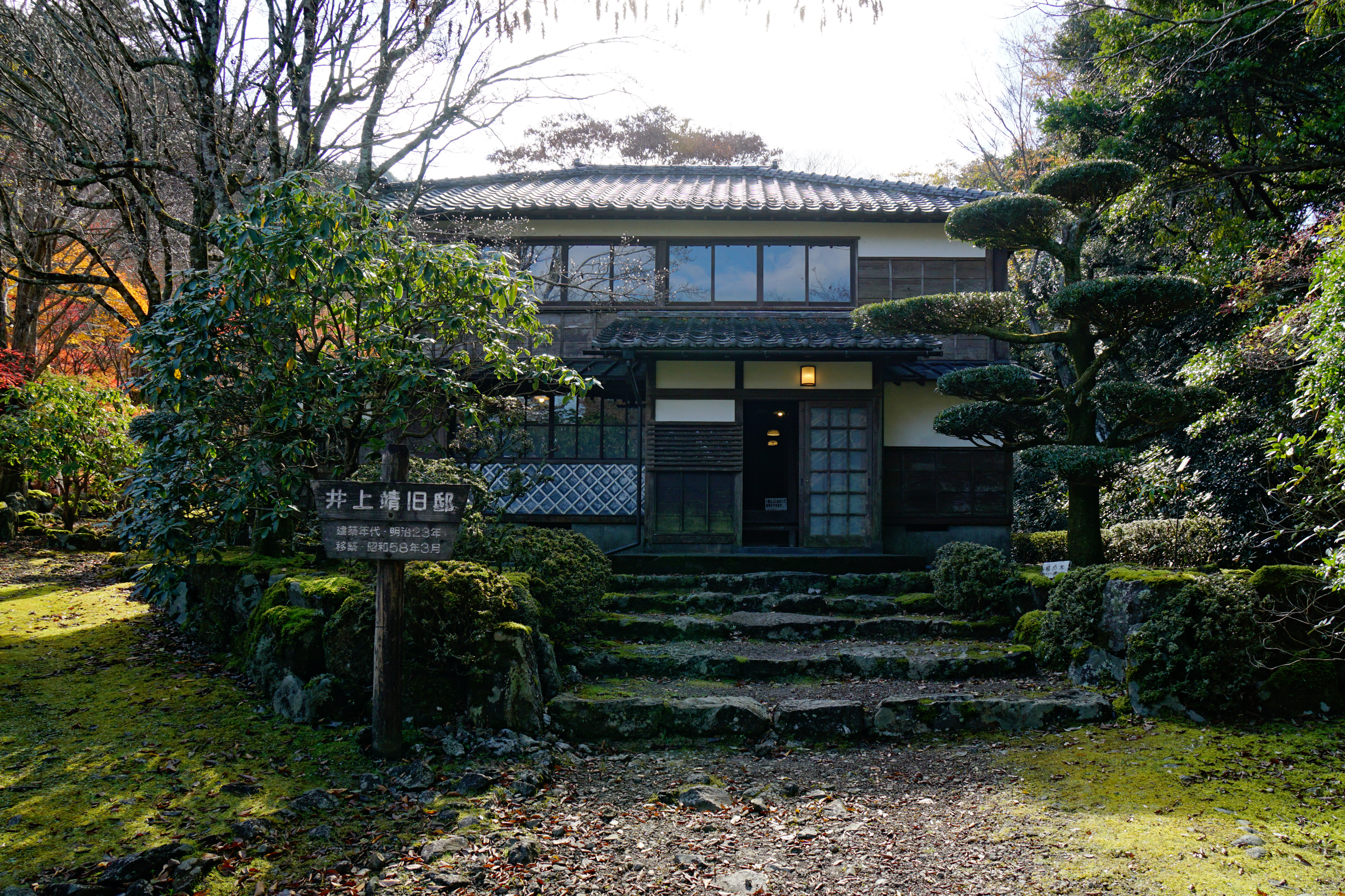 Showa_no_mori_hall in Izu, Shizuoka prefecture, Japan.